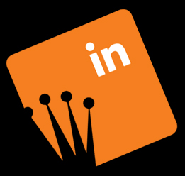 Logo of the influencer of the Month